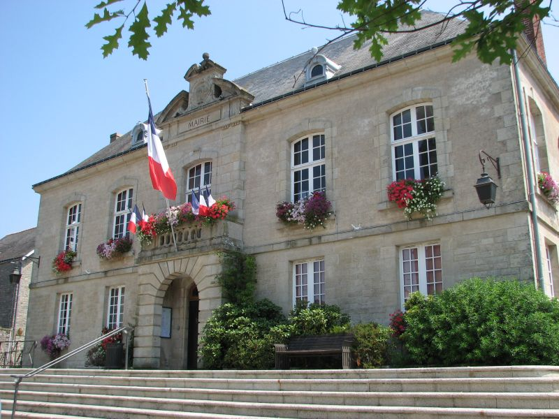 Town hall of Josselin